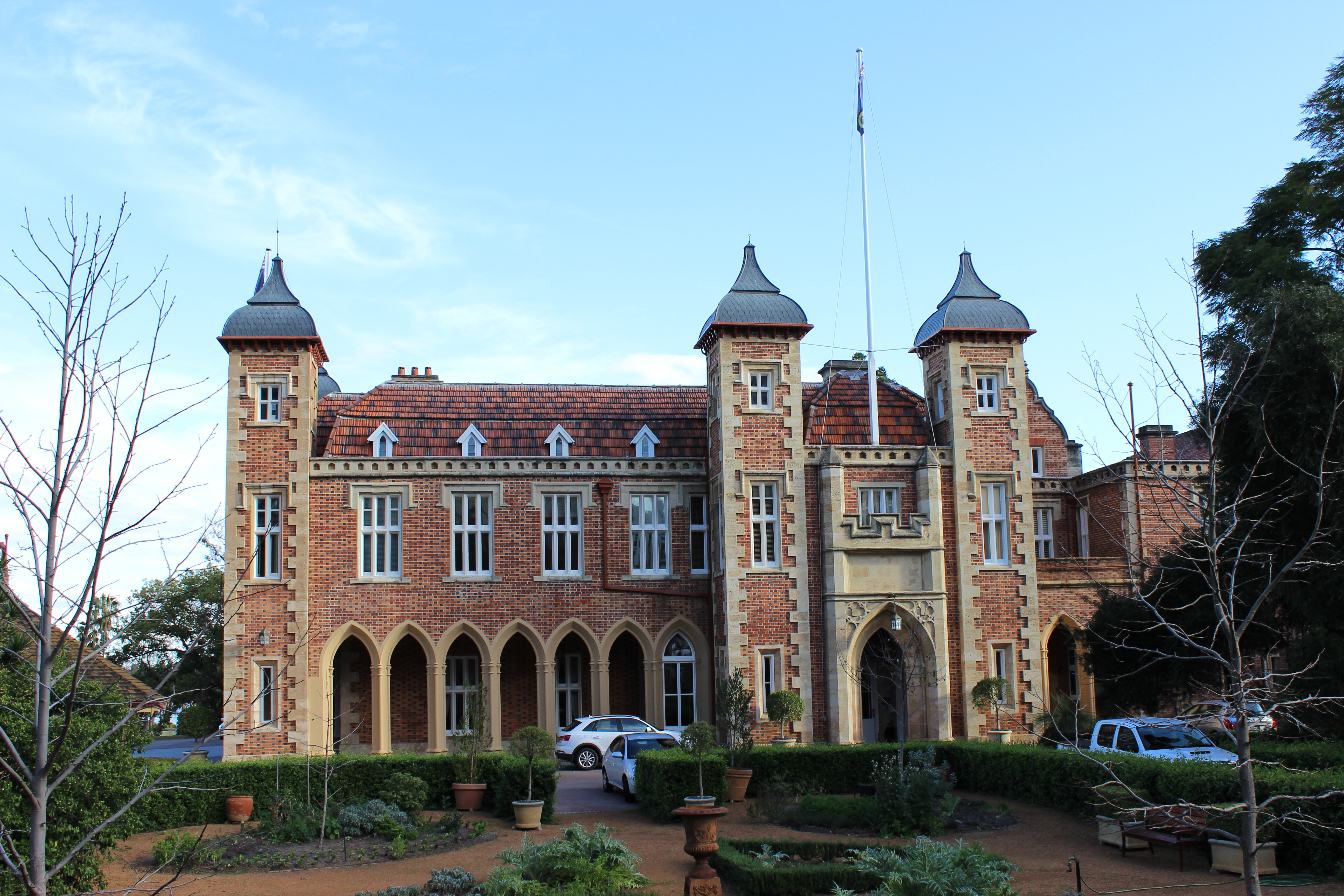 Government House in the CBD